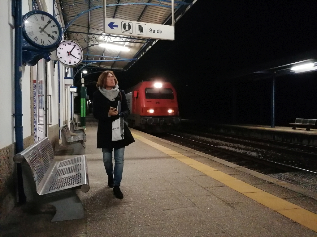 International train Sud Expresso arriving at Santa Comba Dão trainstation, Portugal